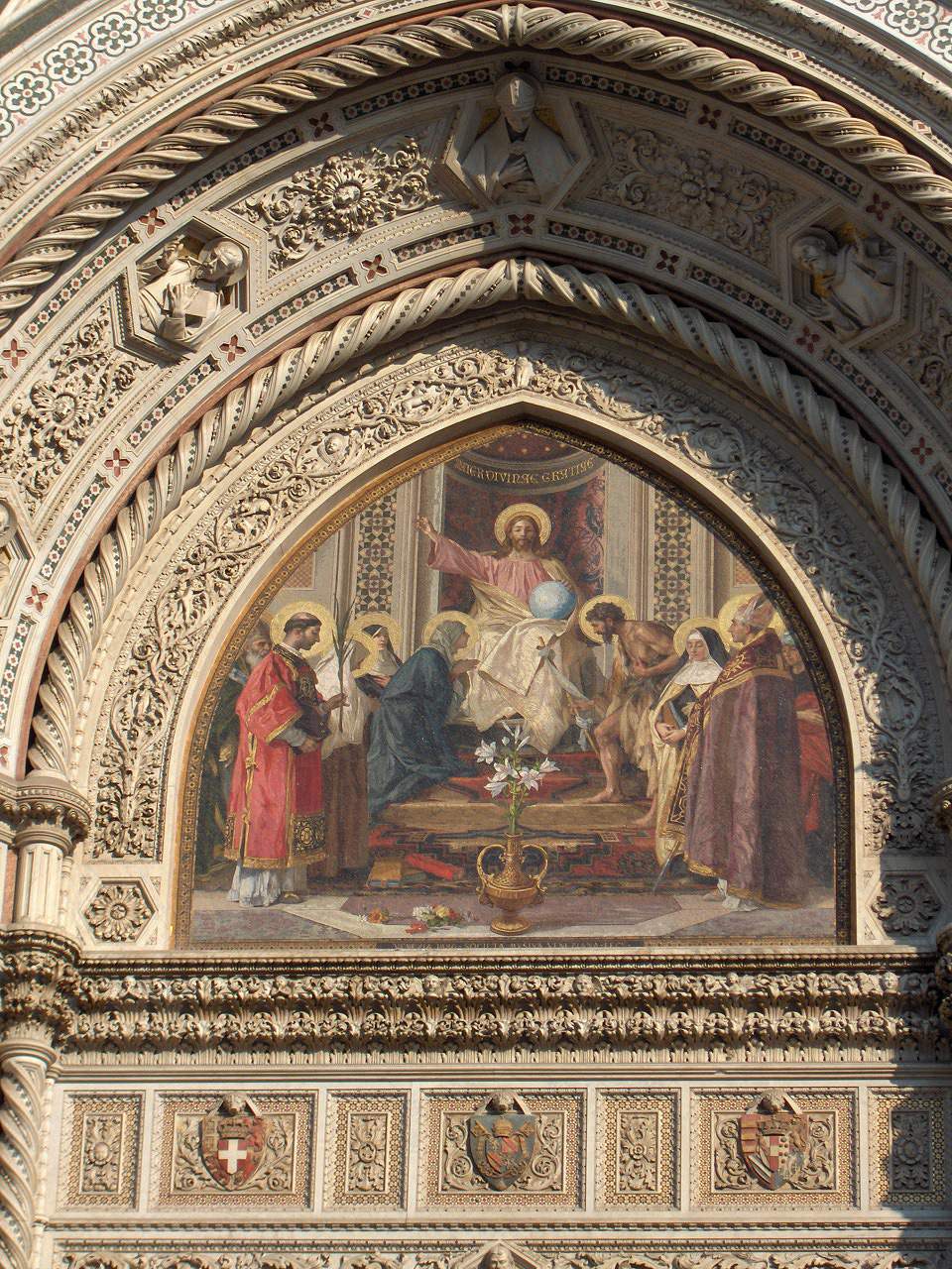 Mosaic above the middle portal of the Duomo santa maria del Fiore; Florence, Italy Own photo - photo made by Georges Jansoone on 12 October 2005